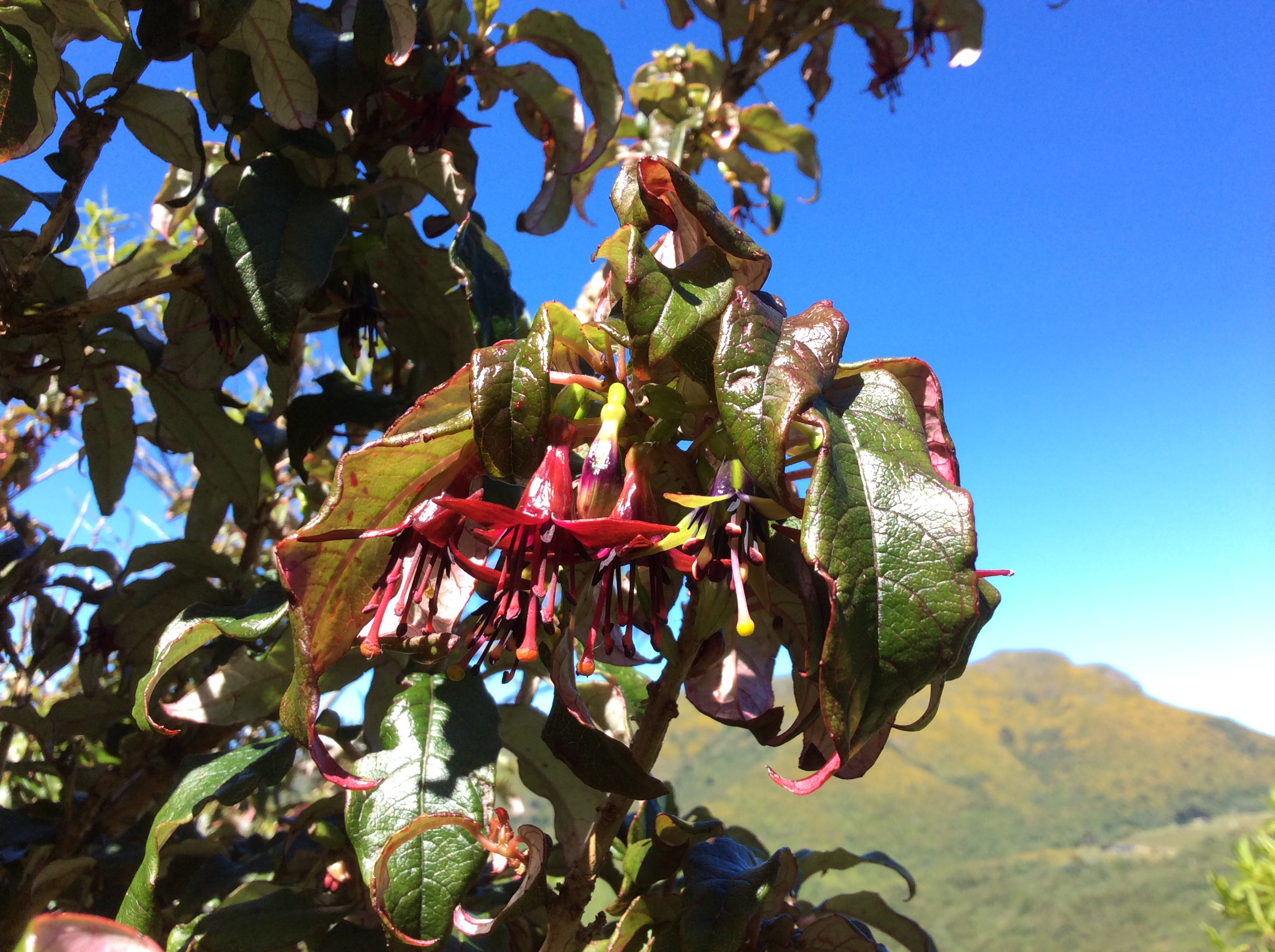 Flowering Fuchsia excorticata, Hinewai, Banks Peninsula, South Island, New Zealand